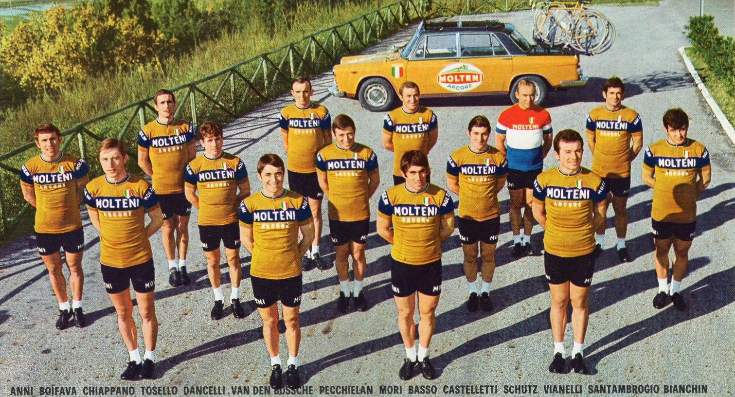 Molteni 1970 postcard